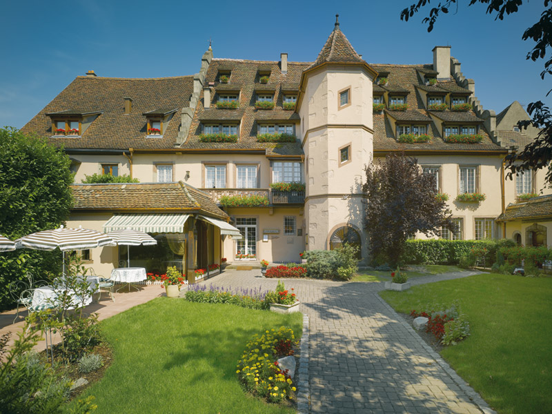 This venerable residence, an outbuilding of the former Abbaye Cistercienne de Baumgarten which has homed King’s Lieutenants, Military Governors, and the Baron d’Empire Baudinot is now a hotel with two restaurants.